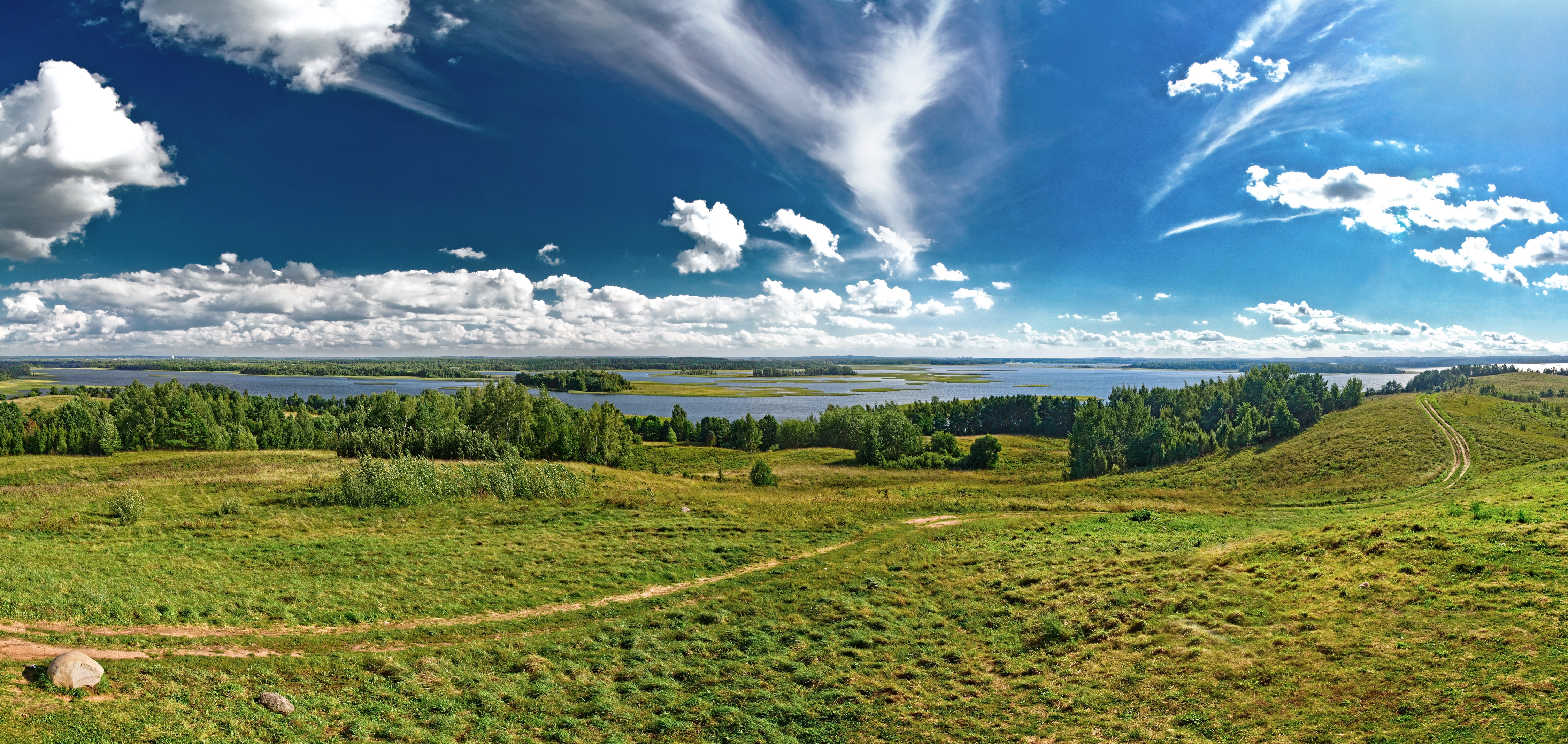 Panoramic view of Strusta Lake, Braslau Lakes, Belarus (2010)